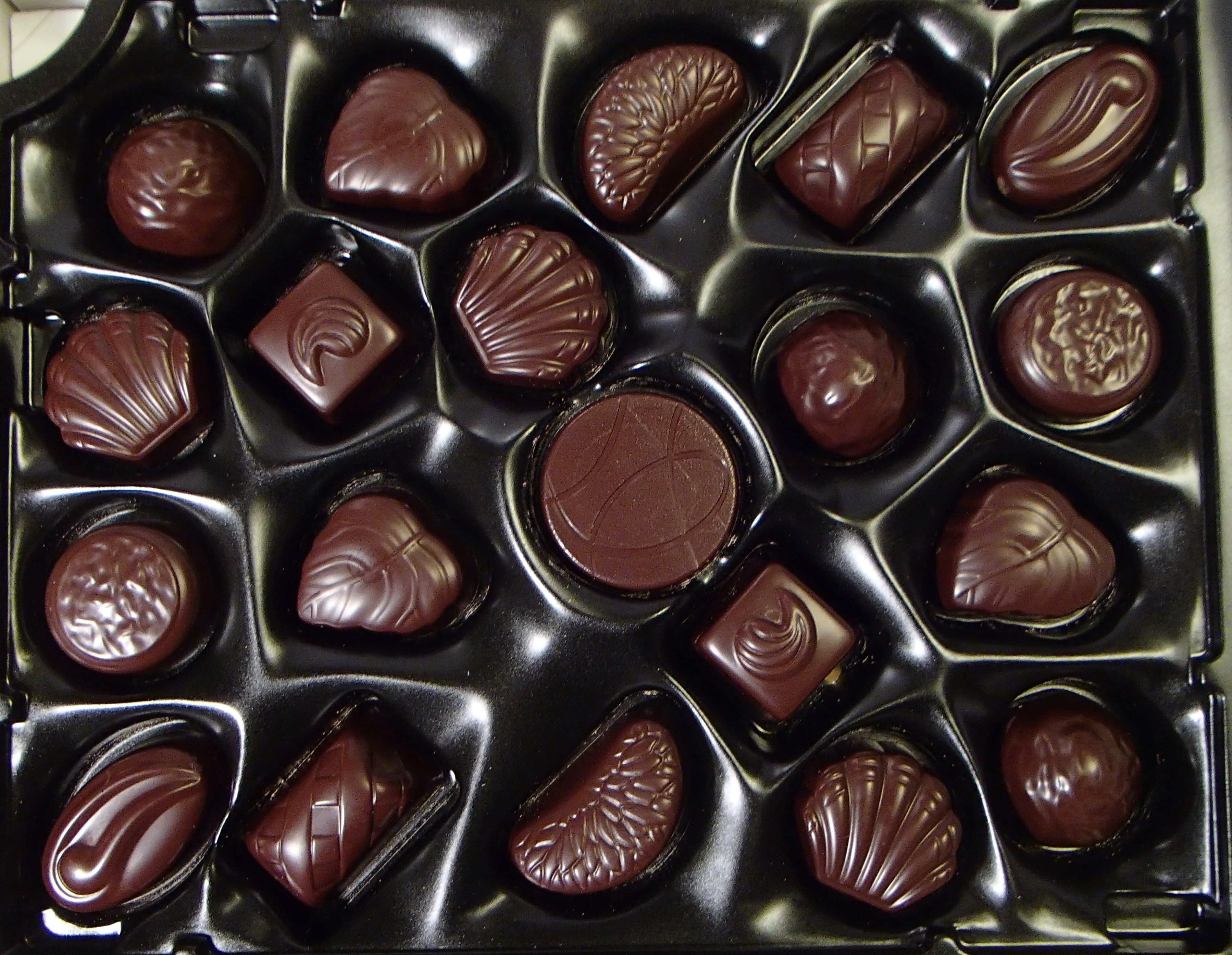 The pralines in a Swedish box of dark chocolates called "Aladdin mörk choklad" the 2013/2014 season (top layer, identical to the bottom layer).